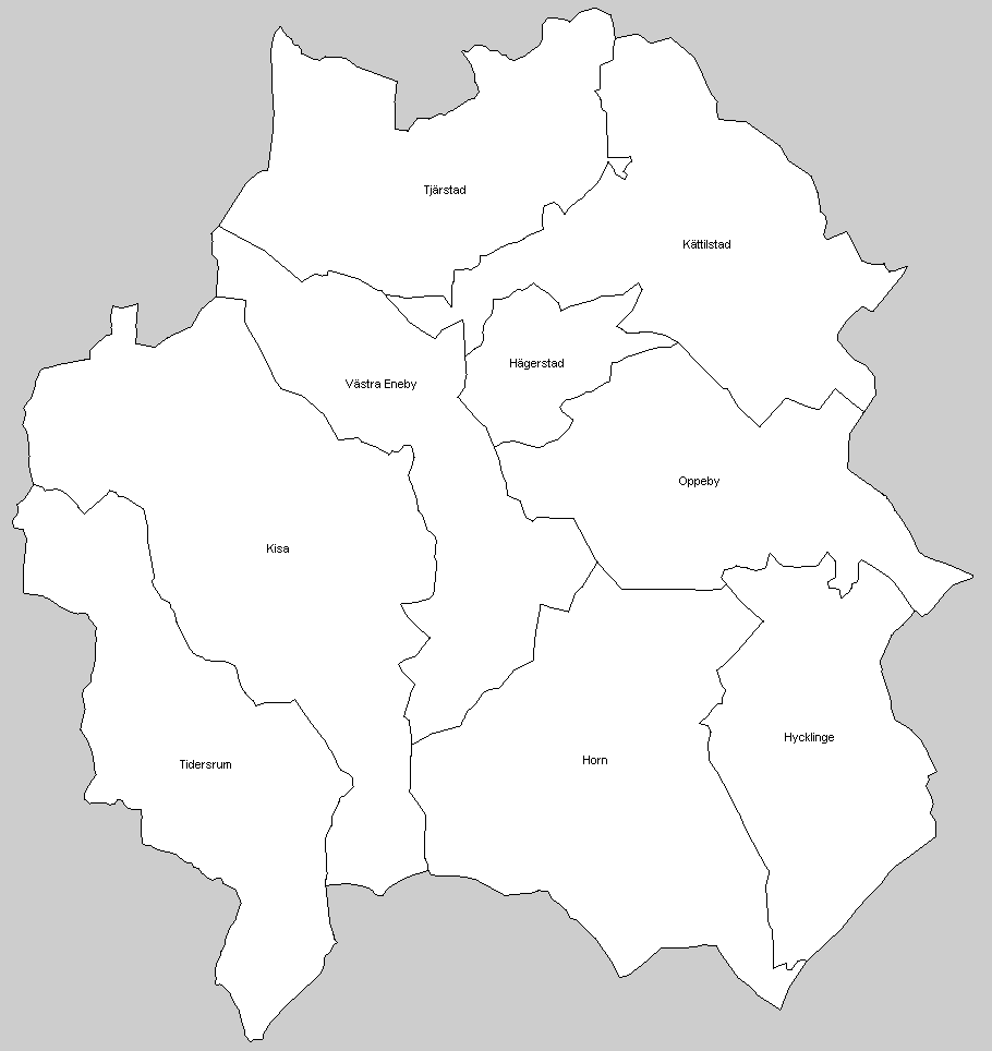 Parishes in Kinda municipality